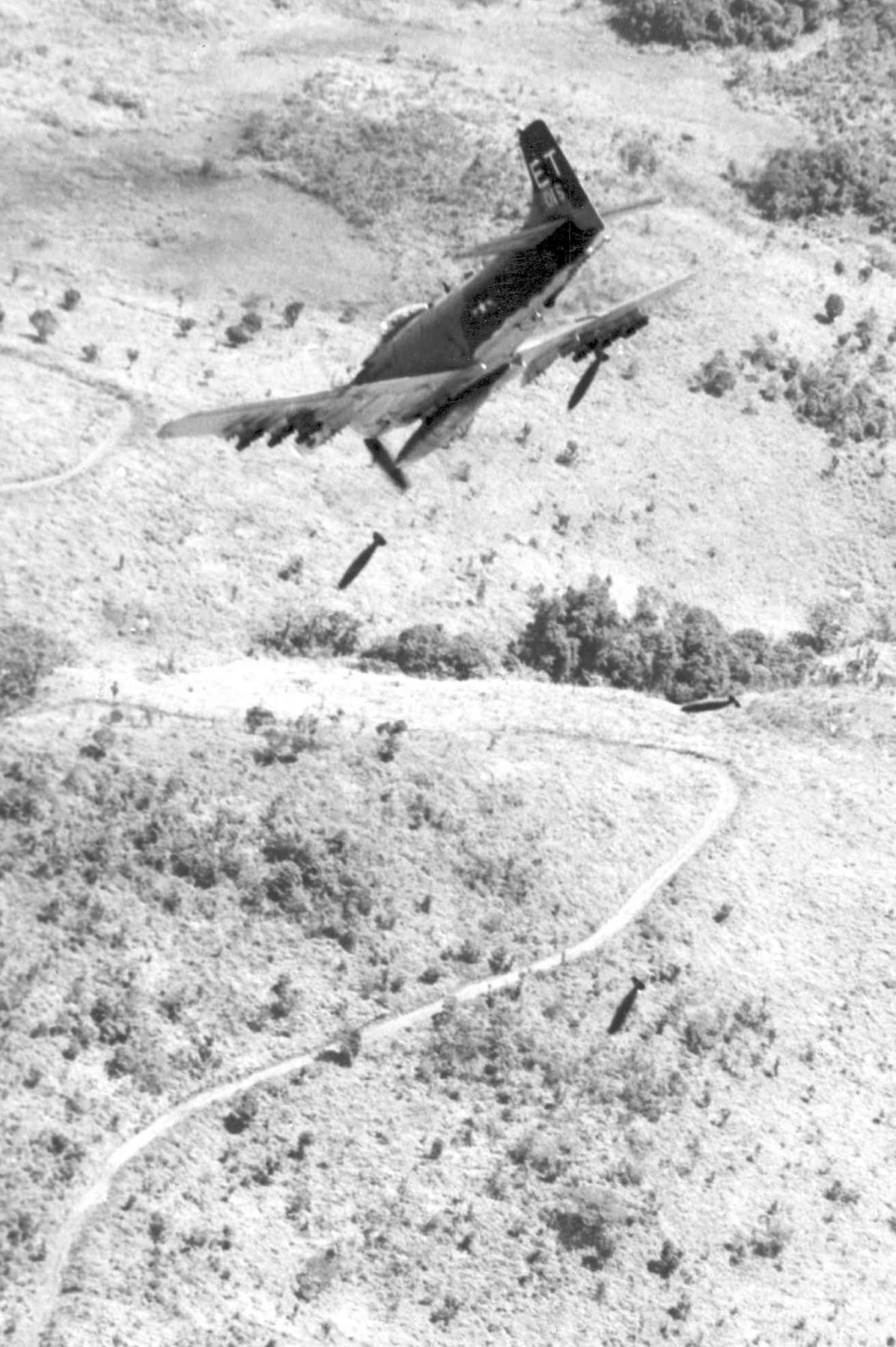 A USAF Douglas A-1J Skyraider (U.S. Navy BuNo 142016) of the 6th Special Operations Squadron bombing a ground target in Vietnam. The 6th SOS operated from Pleiku and Da Nang air bases in 1968 and 1969. It was deactivated on 15 November 1969 and its aircraft were turned over to the South Vietnamese Air Force (VNAF).